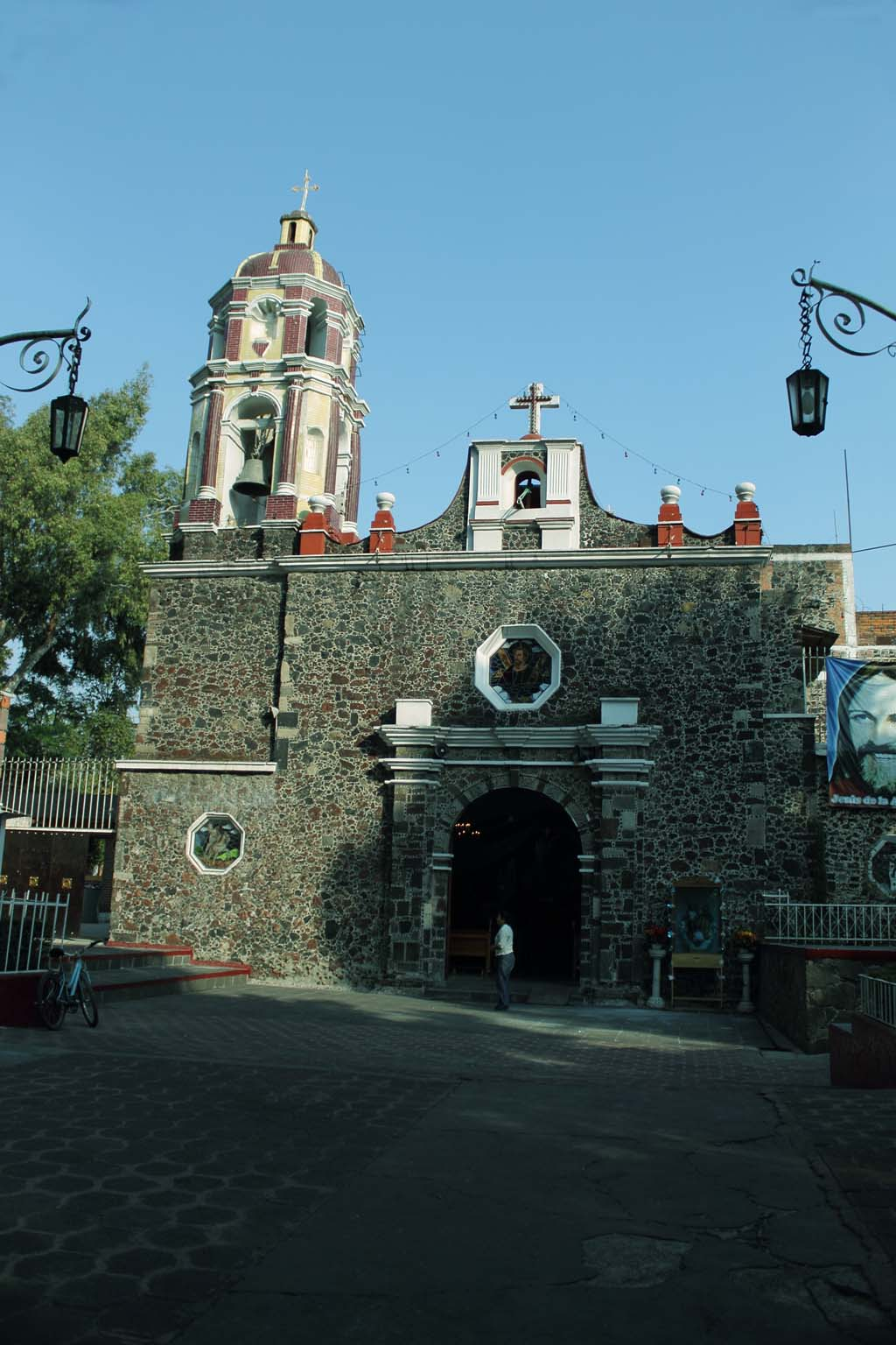 San Andrés Tetepilco Church, December 2014